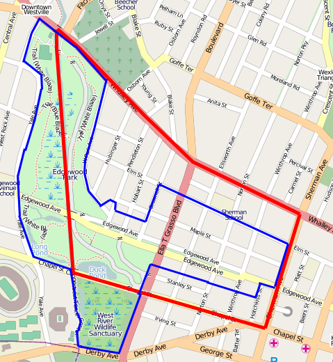 Boundary of Edgewood neighborhood planning area (red) and Edgewood Historic District (blue). Data from City of New Haven City Plan Department. Imagery from OpenStreetMap.